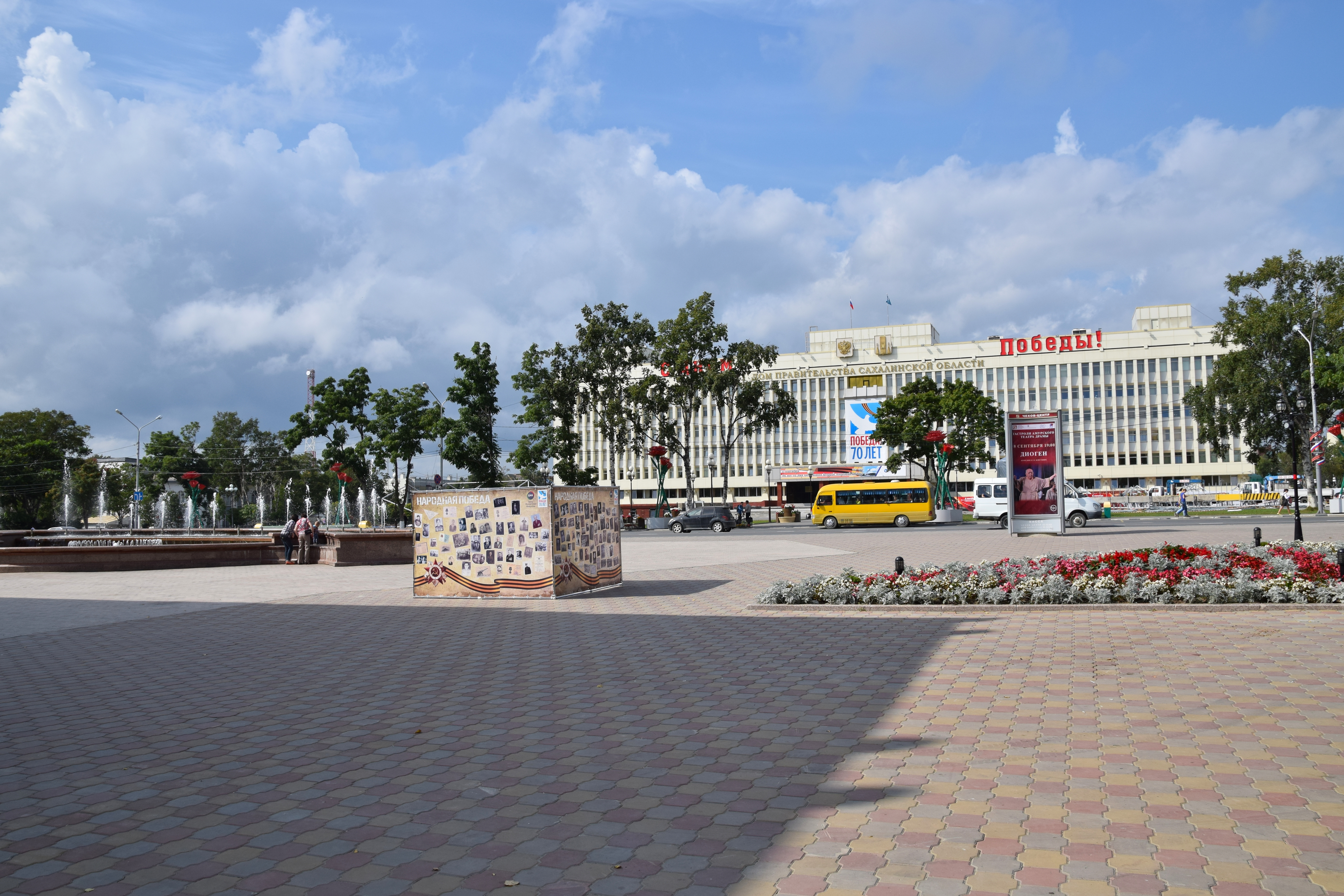 Seat of Sakhalin Oblast in Yuzhno-Sakhalinsk